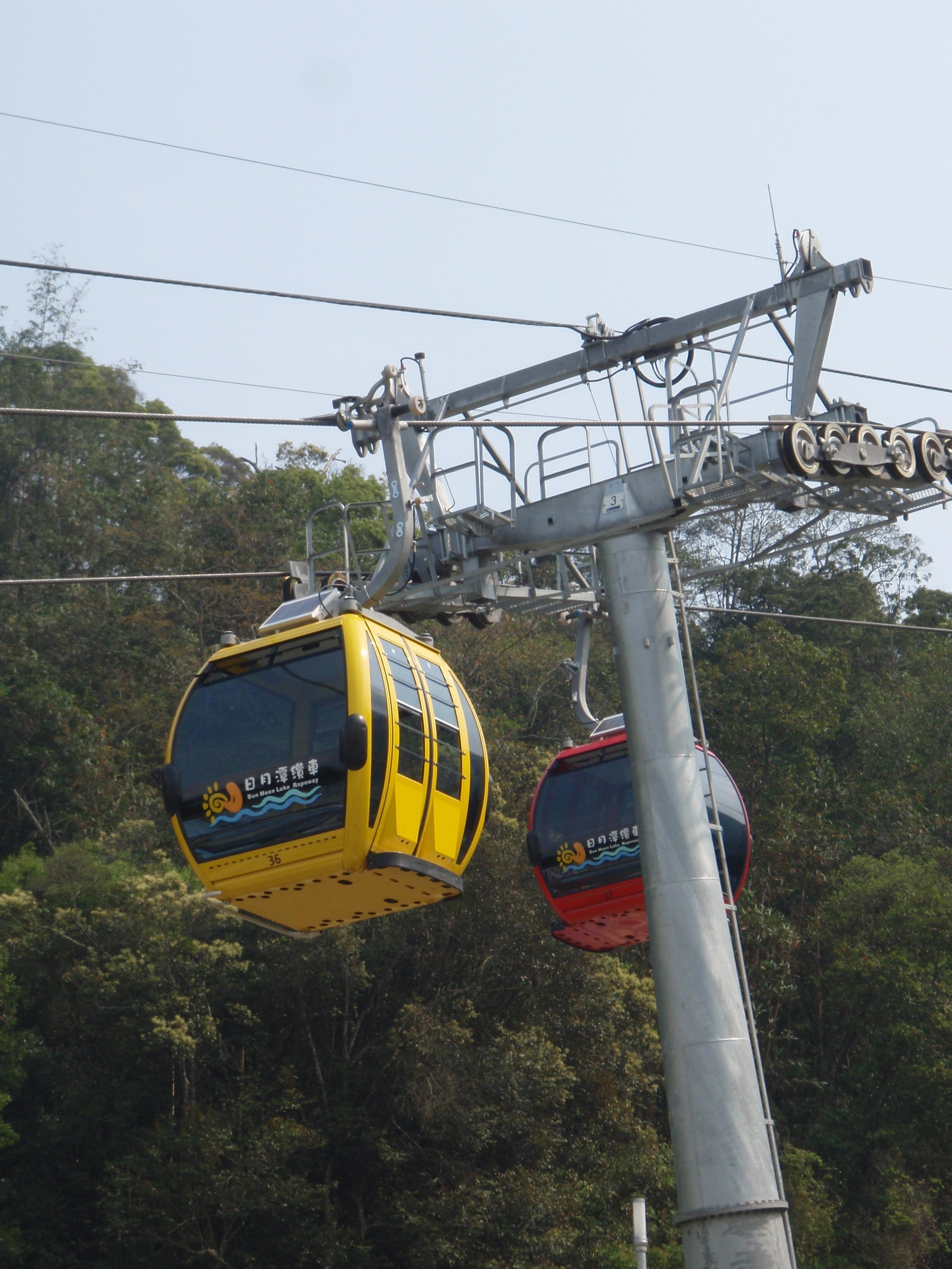 Cabins of the Sun Moon Lake Gondola, located in Nantou, Taiwan.中文（台灣）: 兩輛日月潭纜車的車廂相會。